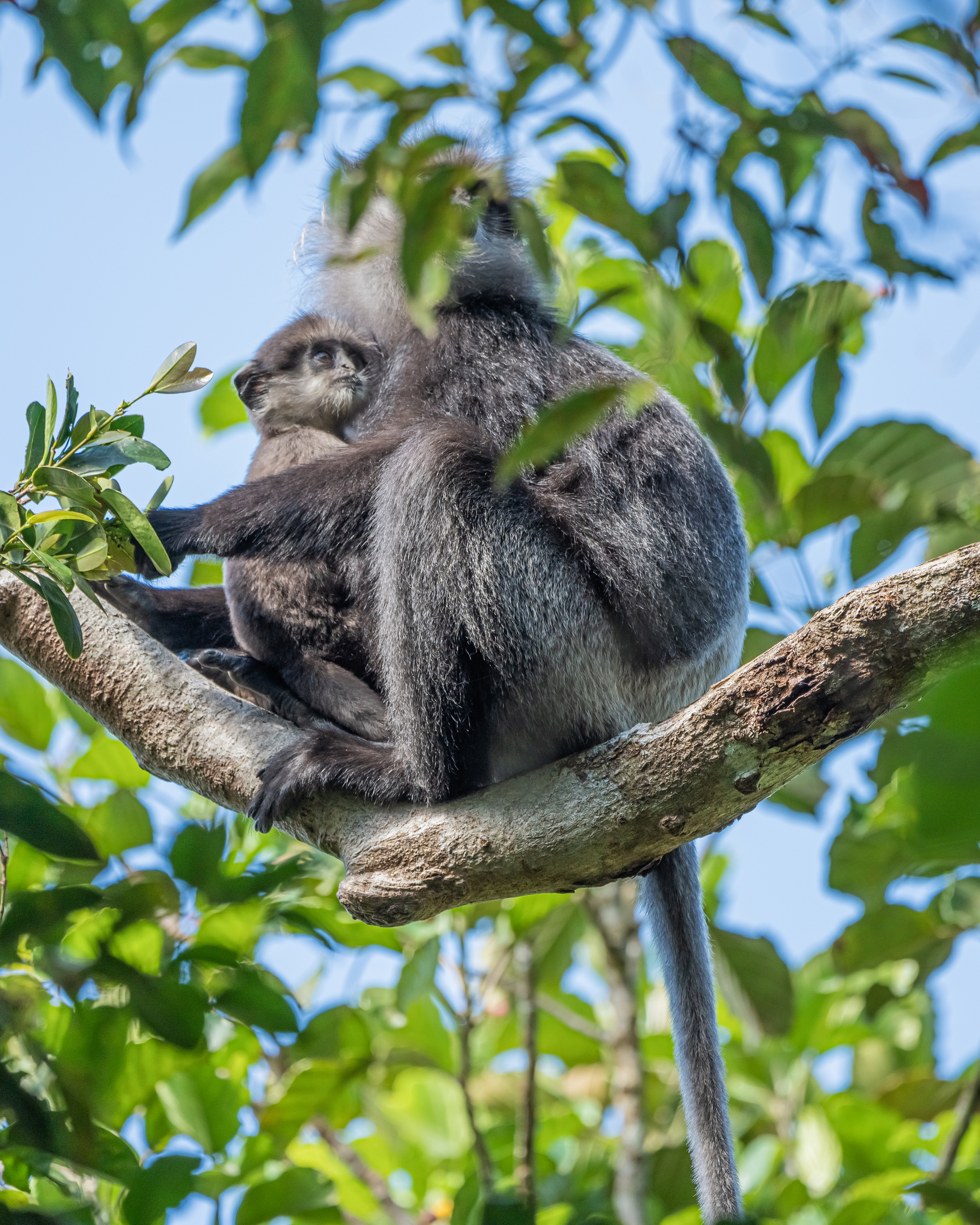 Purple-faced langur with baby in Sinharaja Rainforest near Deniyaya, Sri Lanka